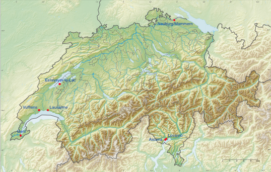 Distribution of Gothic brick buildings in Switzerland